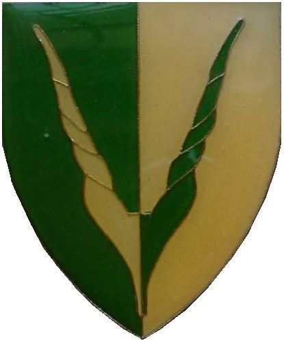 SADF era Marico Commando emblem